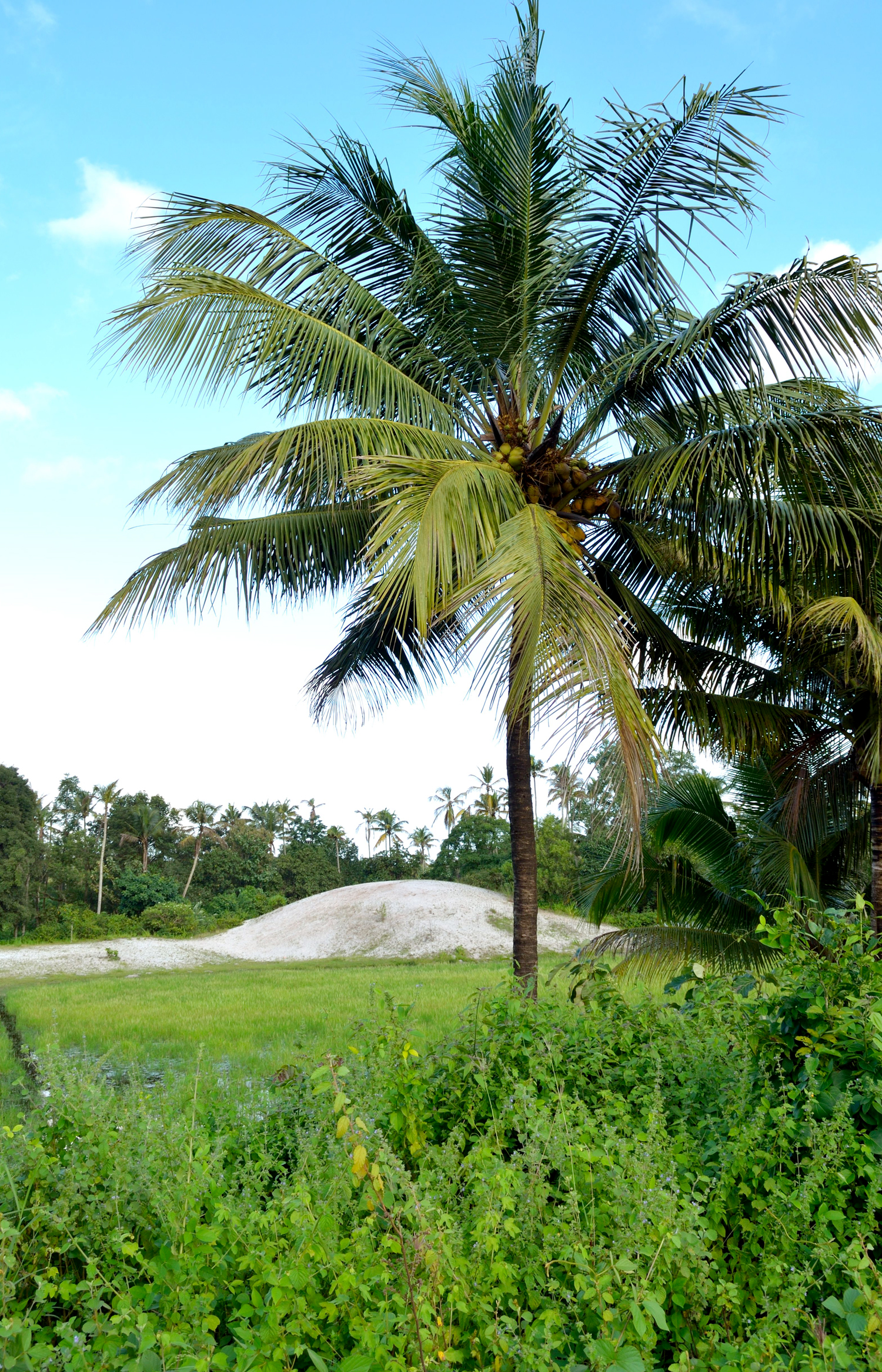 Silica sand at Pallippuram